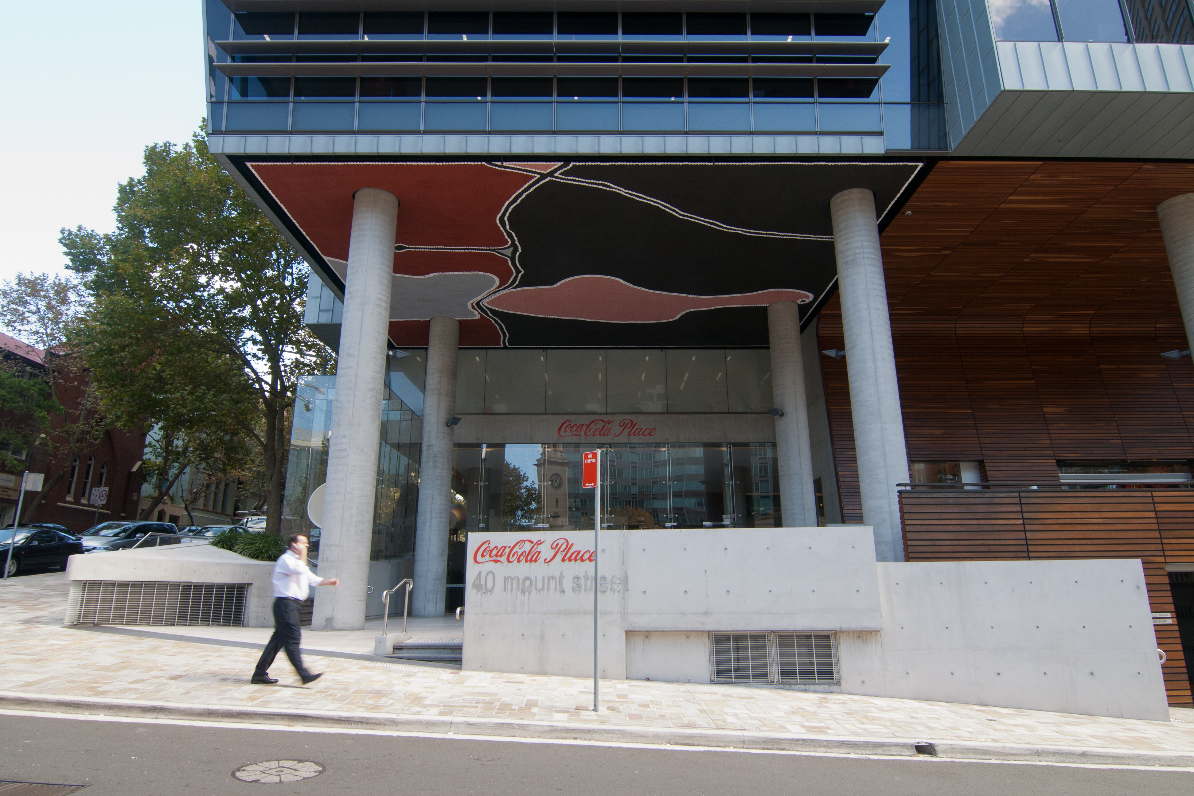 Photo of Main Entrance to Ark-Coca-Cola Place building in North Sydney. Taken 5th April 2012.